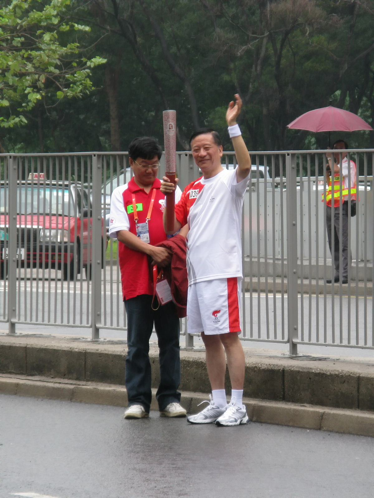 Ng Ching fai, Torchbearer No.39, Olympic Torch Relay in Hong Kong